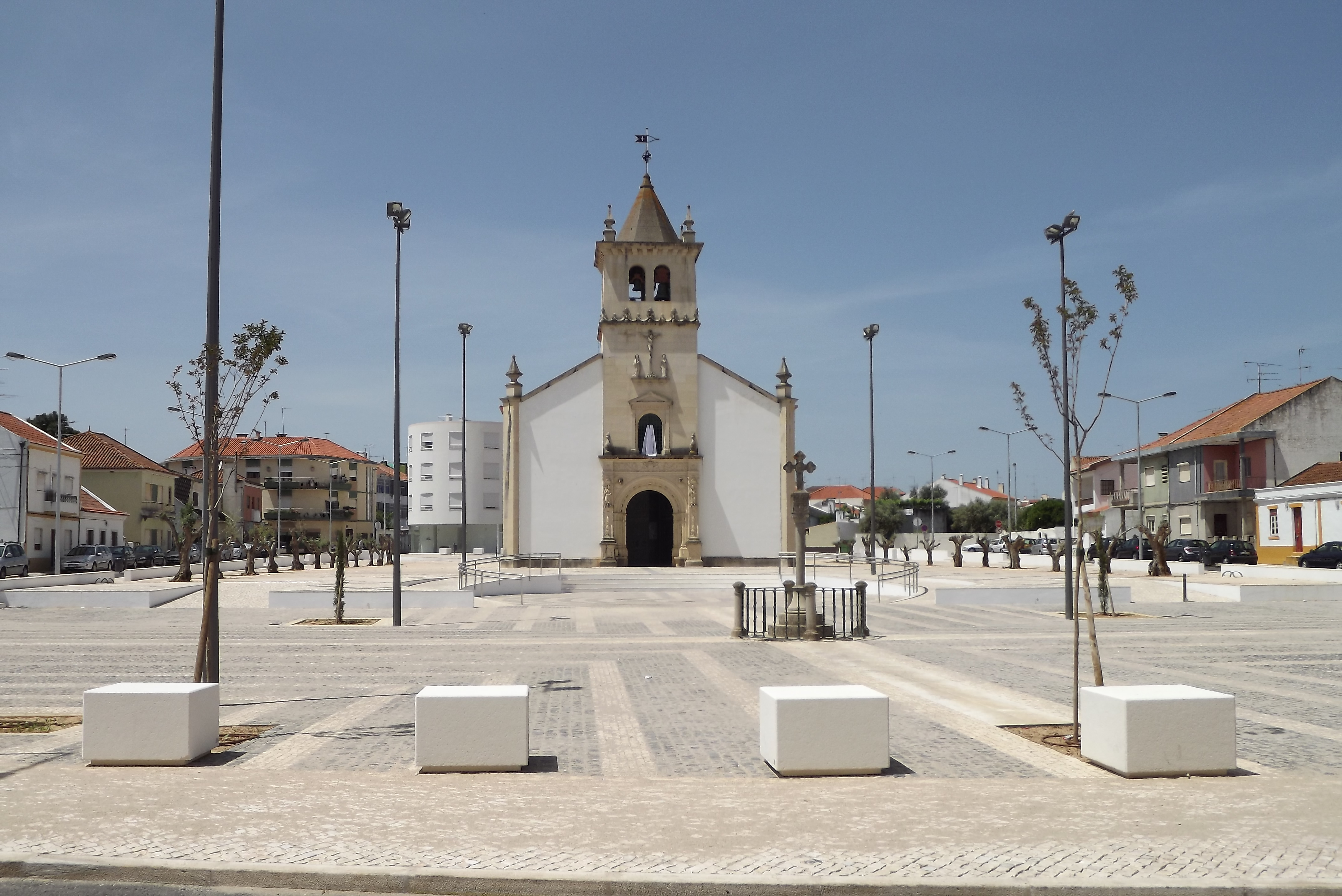 Church, opened in 1940.